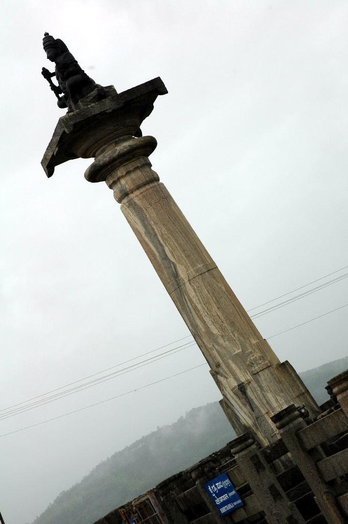 Kshetrapala God near Gomateshwara. Photo Credit: Shiva shankar Location: karkala, India More versions